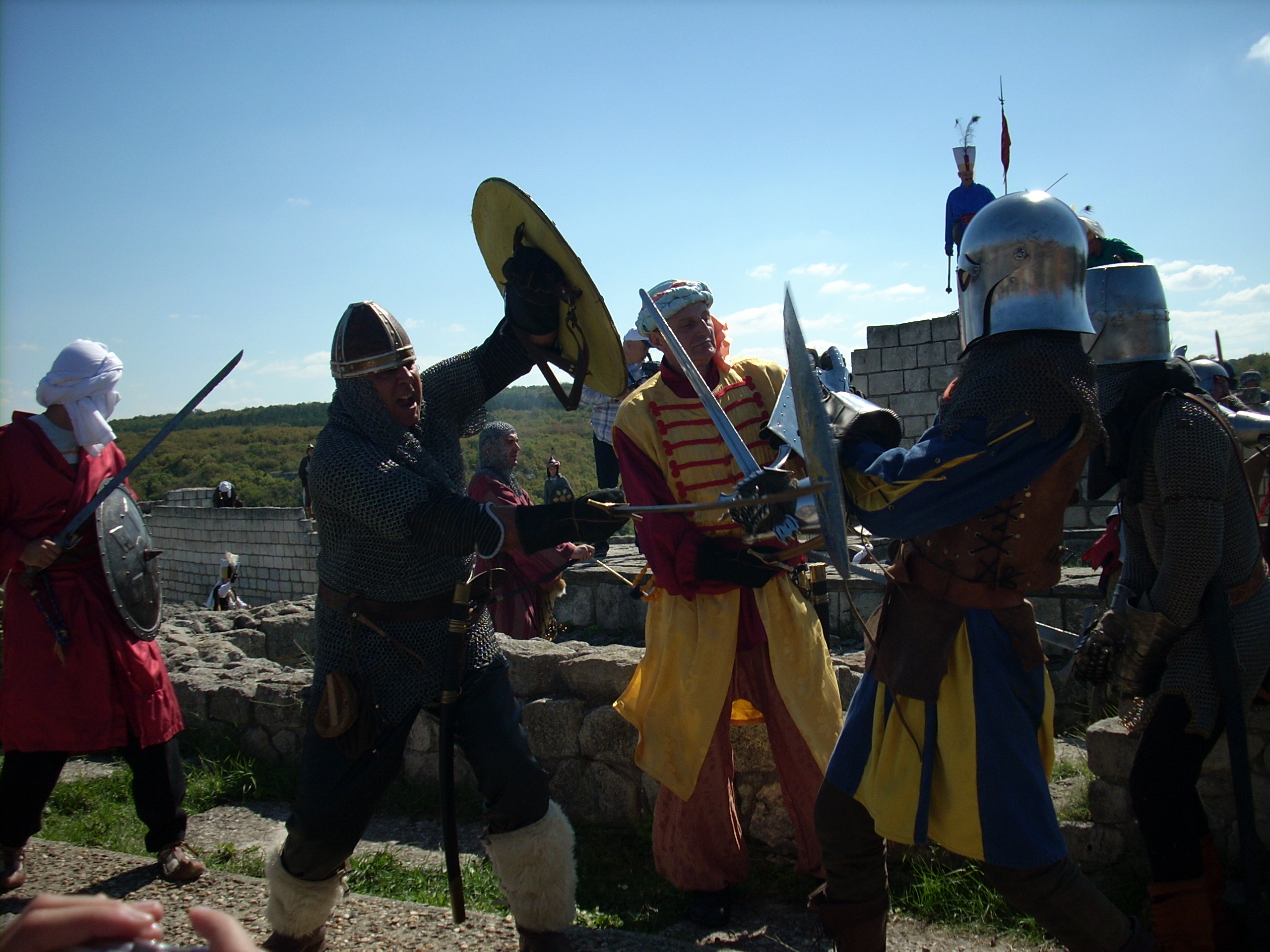 A scene of the 2007 reenactment of the battle of Shumen (1444, during the Crusade of Varna).